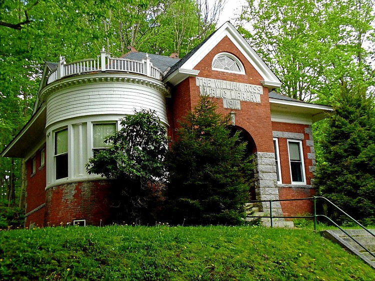 The William Ross Public Library building, Chaplin, Connecticut. Part of the Chaplin Center Historic District.